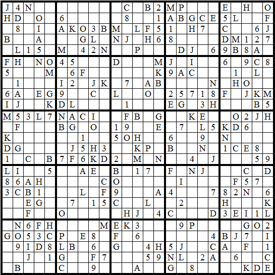 25 by 25 ssudoku puzzle generated using a program available at